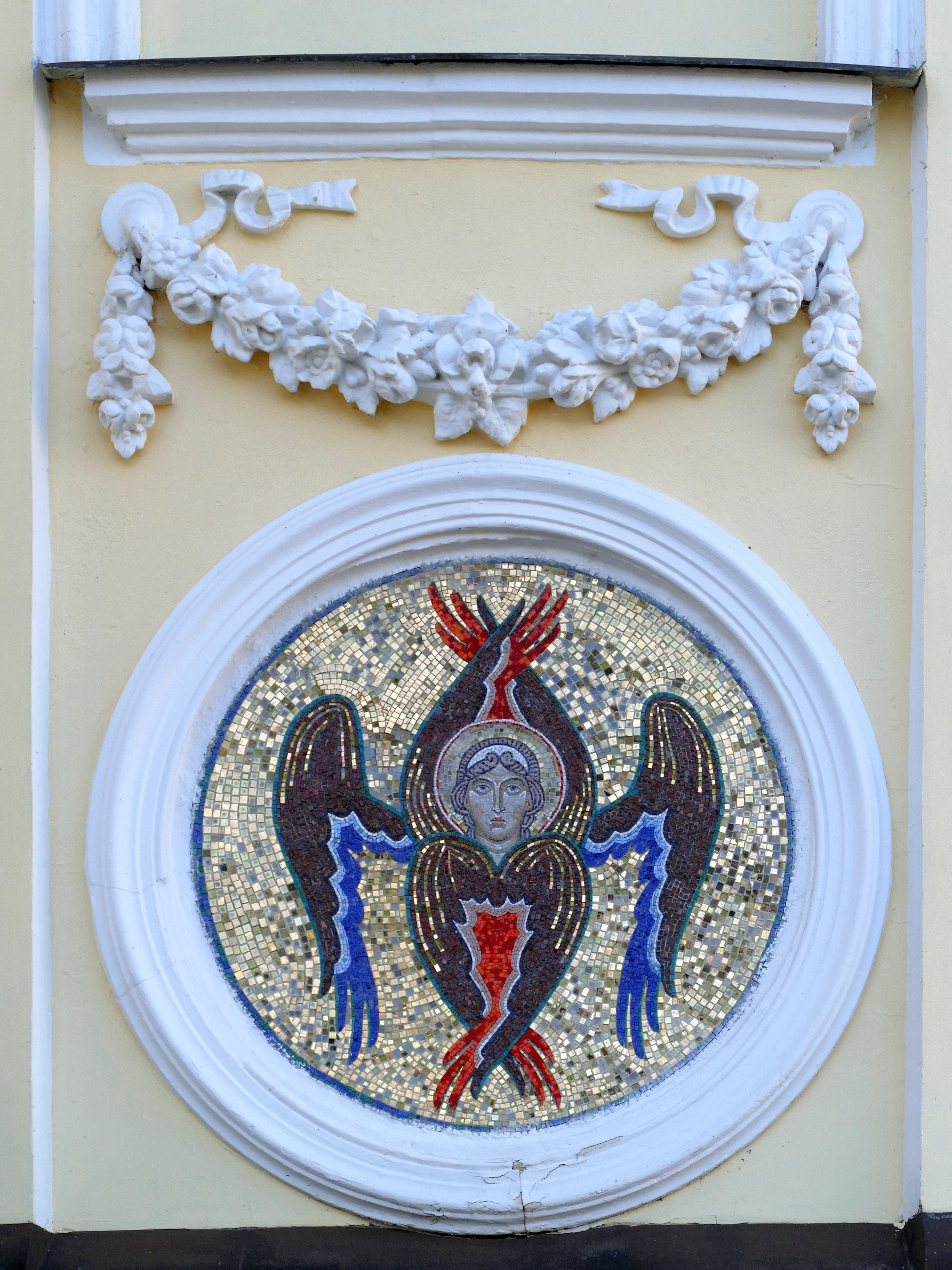 Voznesenskaya Davidova Pustyn. St. Nicholas Church (detail of the facade). Moscow region, Russia.